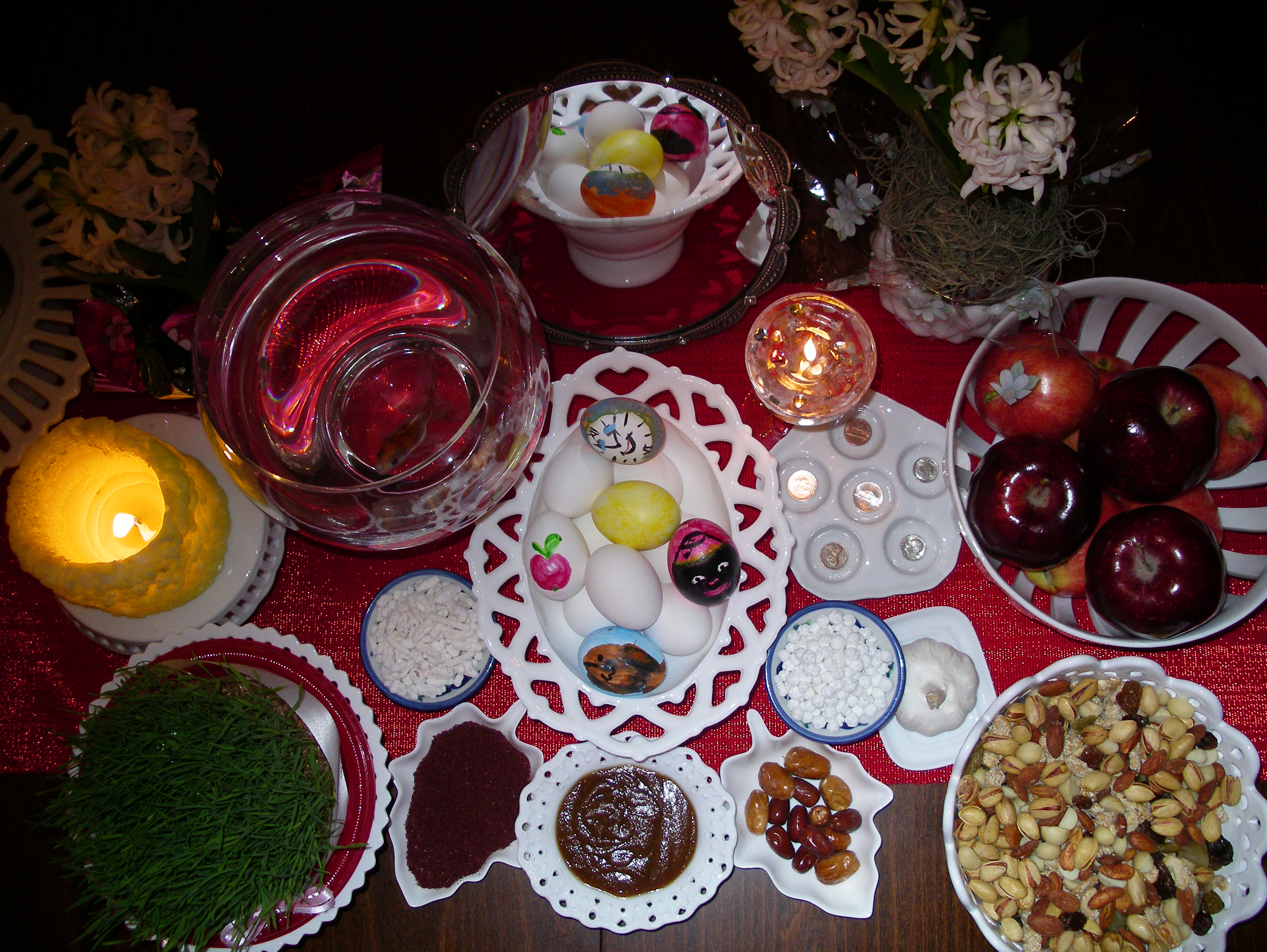 Haft-Seen which is used in Iran at Nowruz.